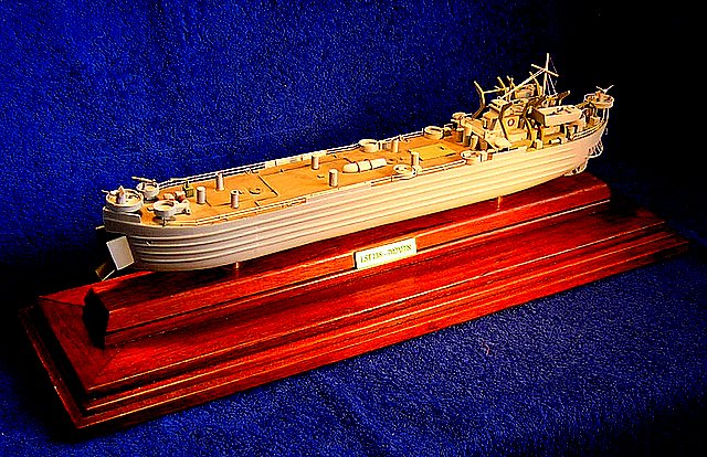 Altalena, aka "lst 138". Model was created by author according to American plans. Model size - 42cm. Picture was taken by author.